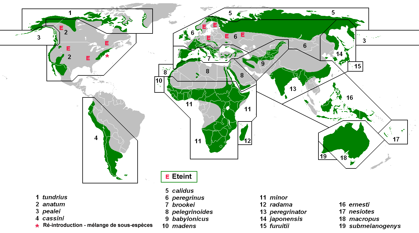 Subspecies map of Falco peregrinus (breeding distributions only).